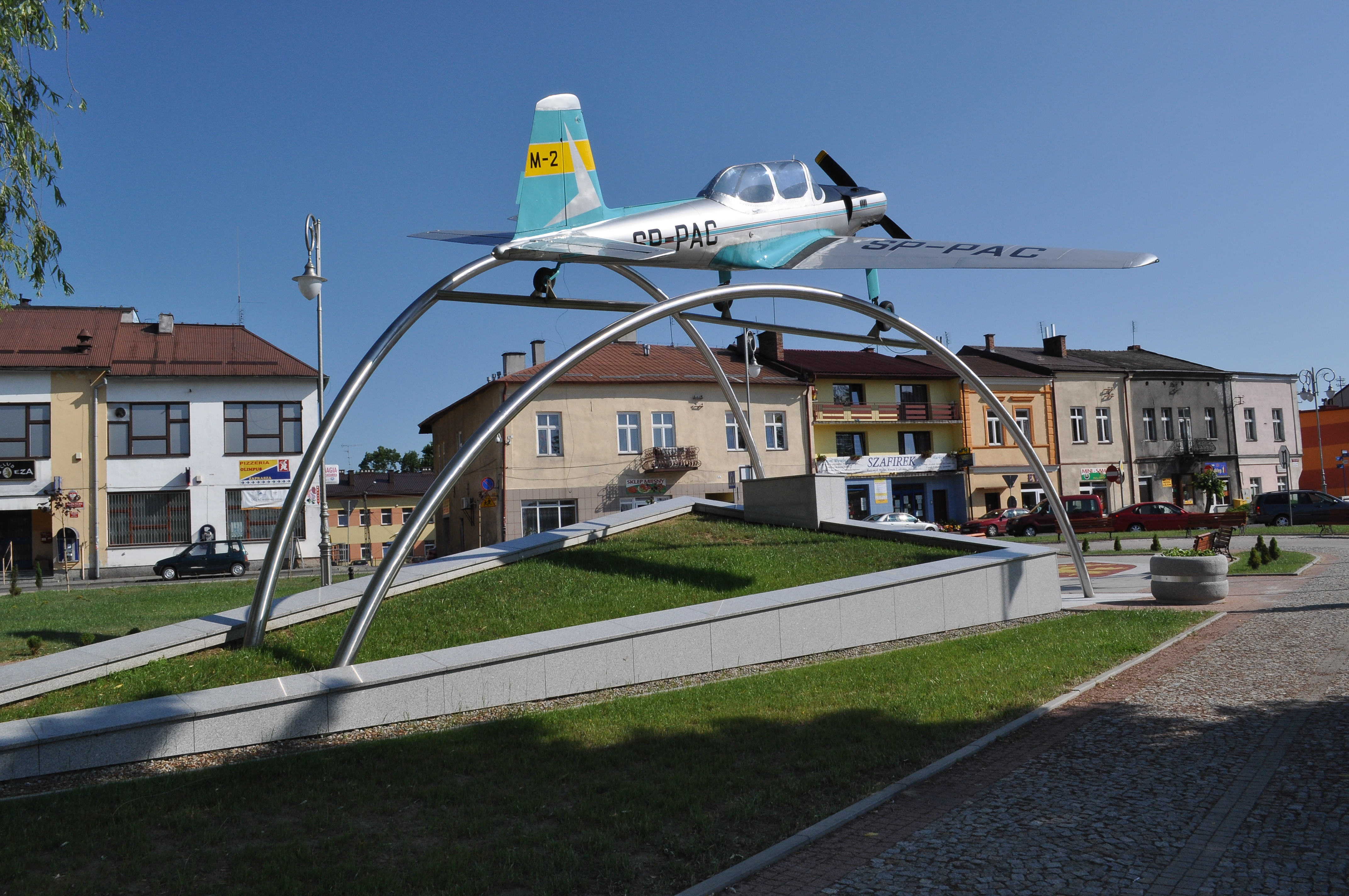 The second prototype PZL M.2 preserved in the market square at Radomyśl Wielki